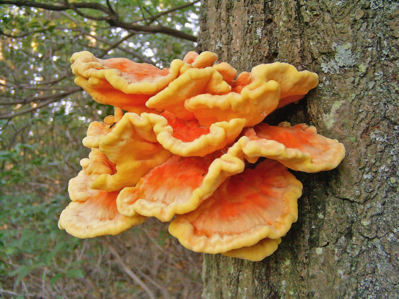 Laetiporus sulphureus (Chicken of the woods) on an oak tree.